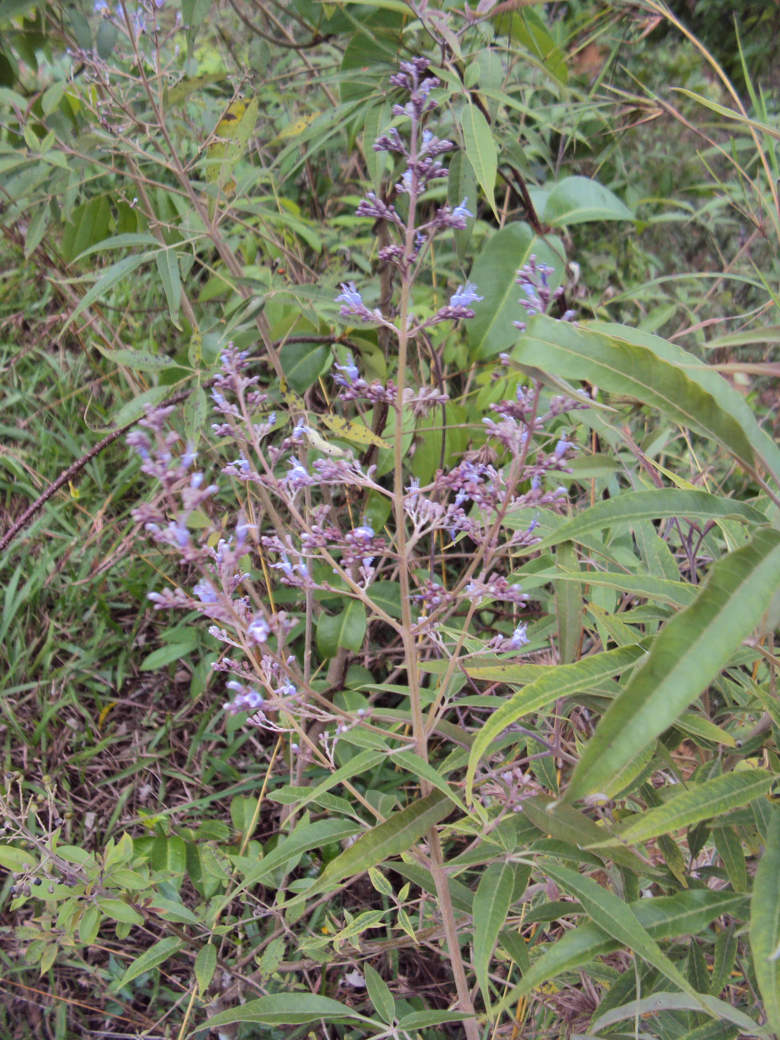 Vitex negundo